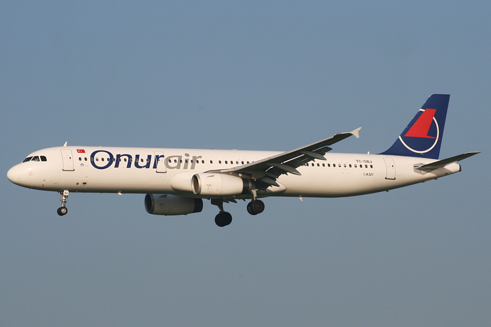 TC-OBJ Onur Air Airbus A321